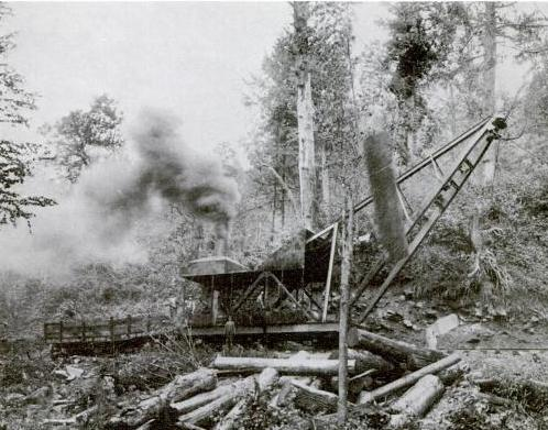 Steam-powered skidder of the Little River Lumber Company moving log in the Elkmont area of Sevier County, Tennessee, United States.